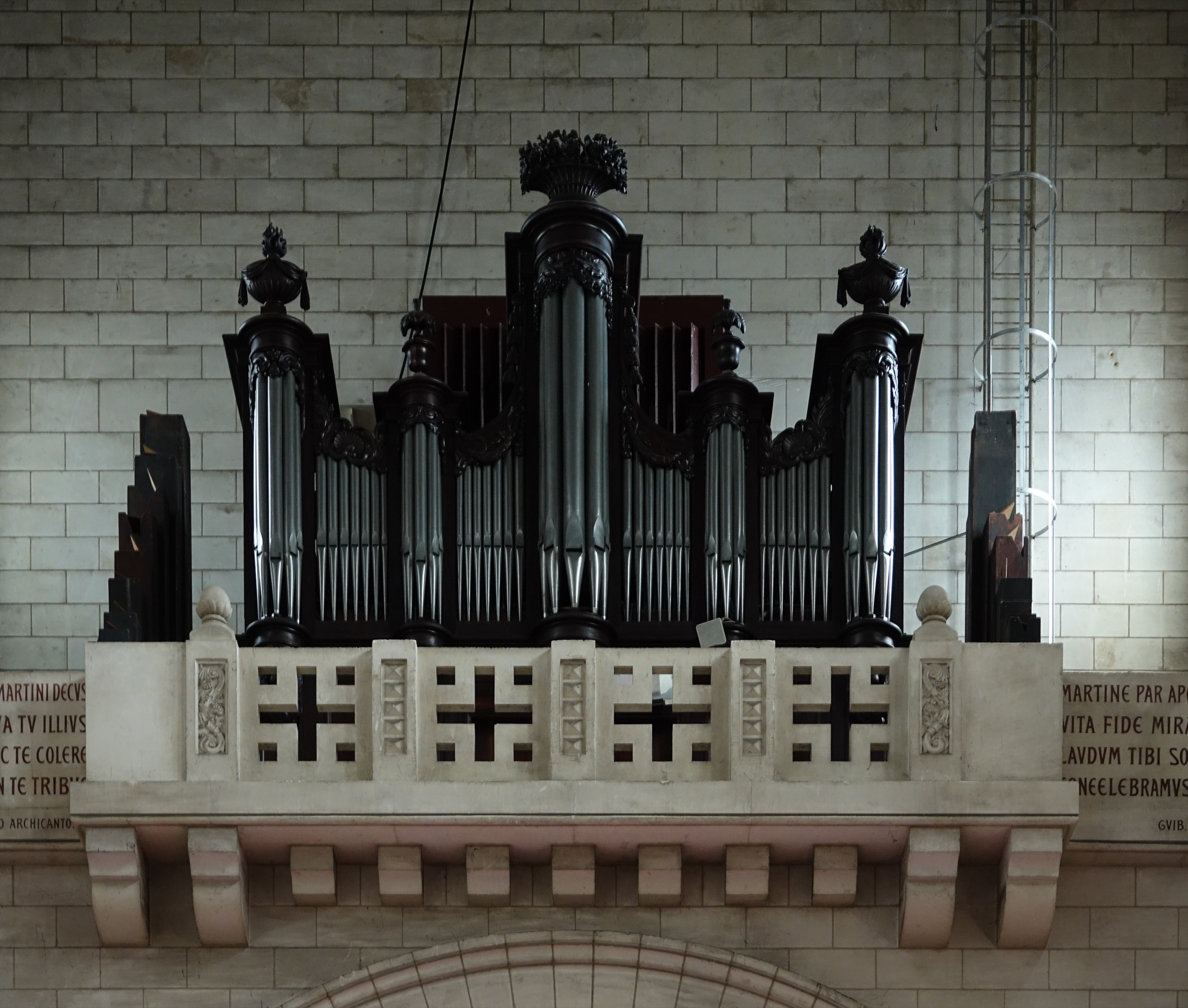 Pipe organ in basilica Saint-Martin in Tours (Indre-et-Loire, France).